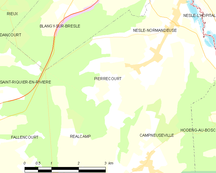 Map of French municipality Pierrecourt